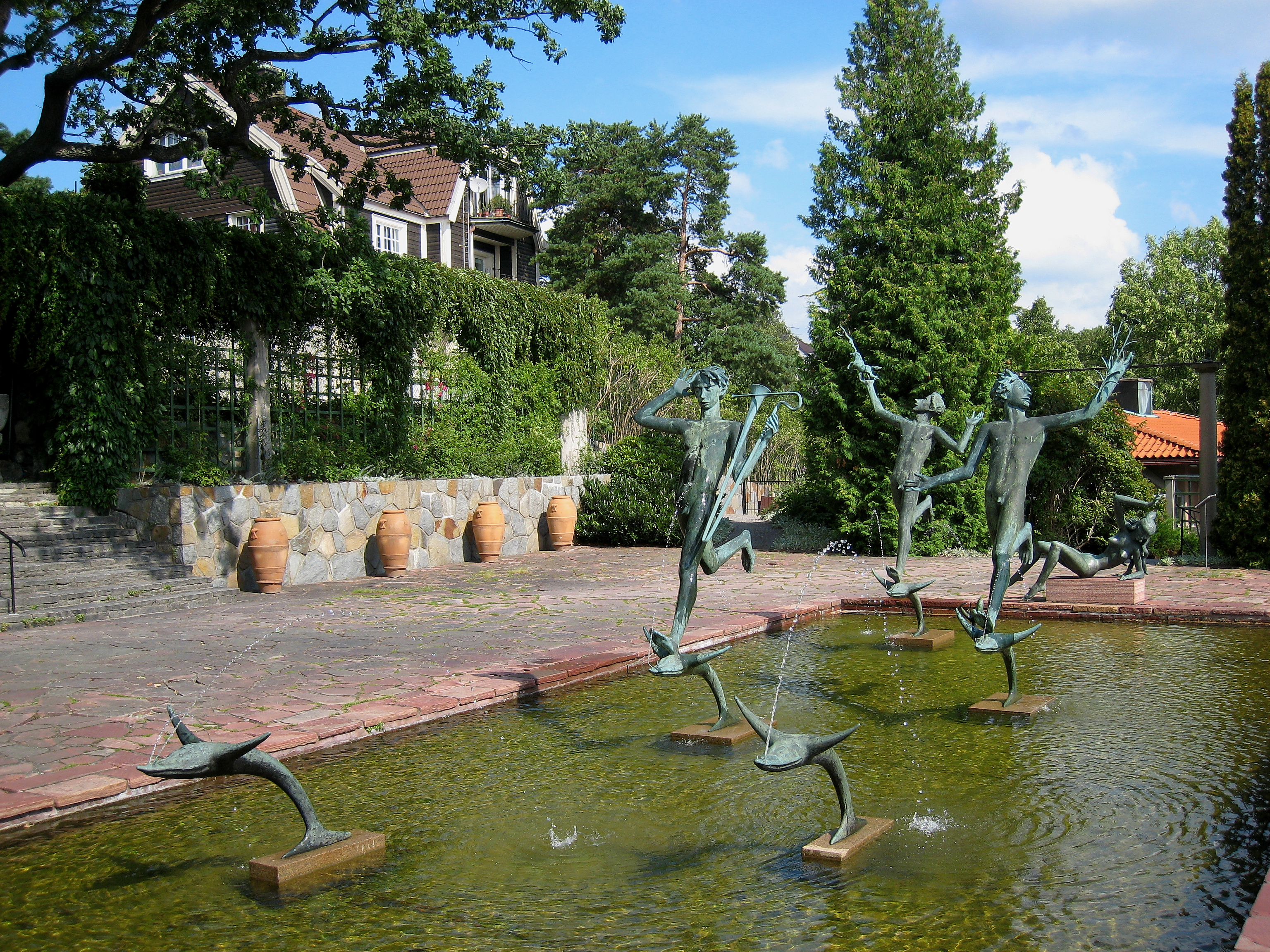 One of the funniest pieces of art I've ever seen. Millesgården, Lidingö, Sweden